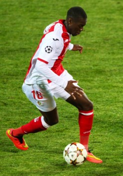 Yannis Mbombo